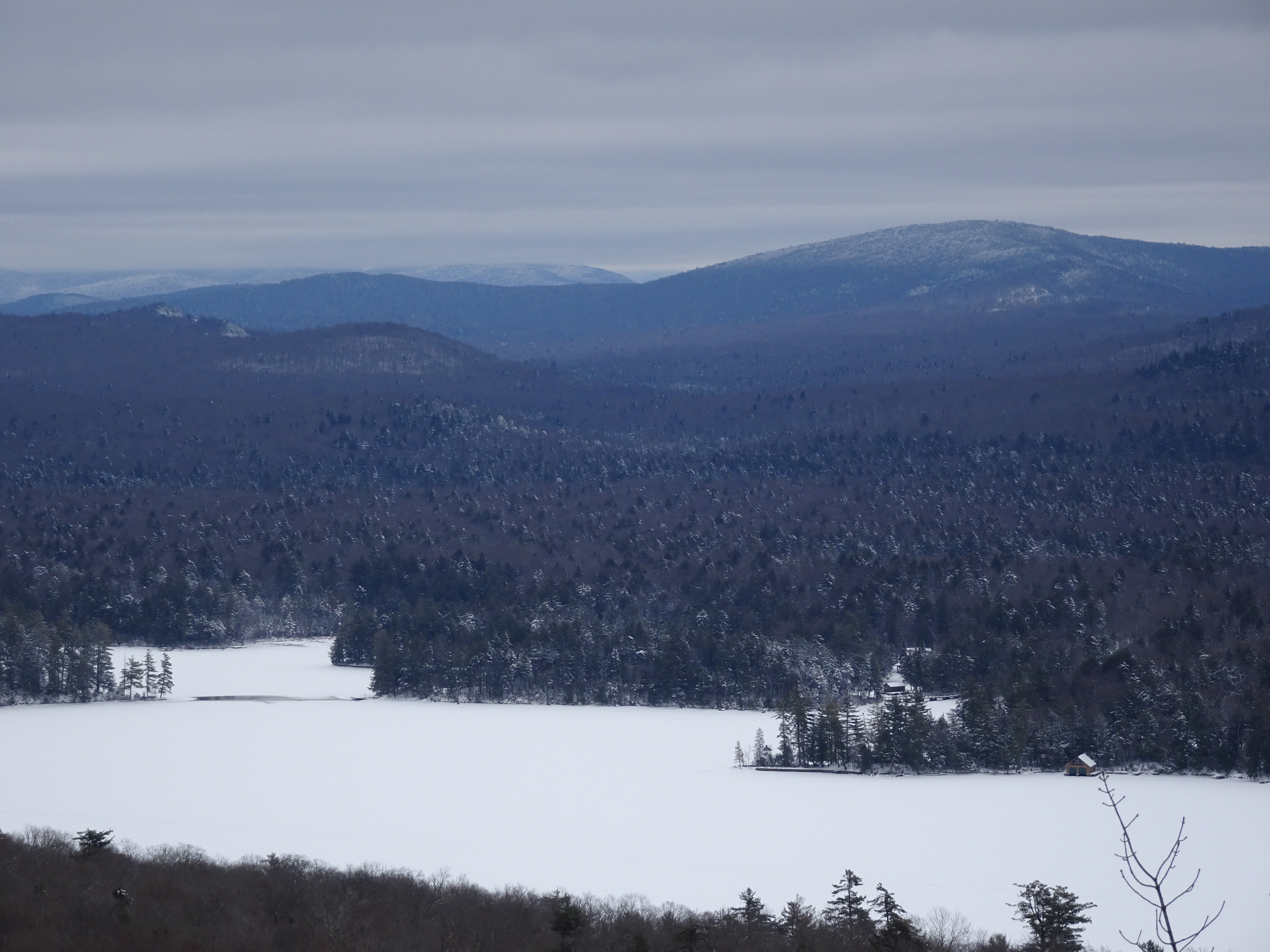 View from Bald Mountain (New York) in early 2018.